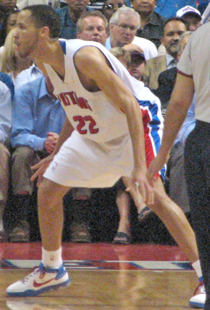 cropped picture below to show Tayshaun Prince only (original text: "LeBron James goes up against his toughest defender, Tayshaun Prince, in Game 1 of the 2007 Eastern Conference Finals.")